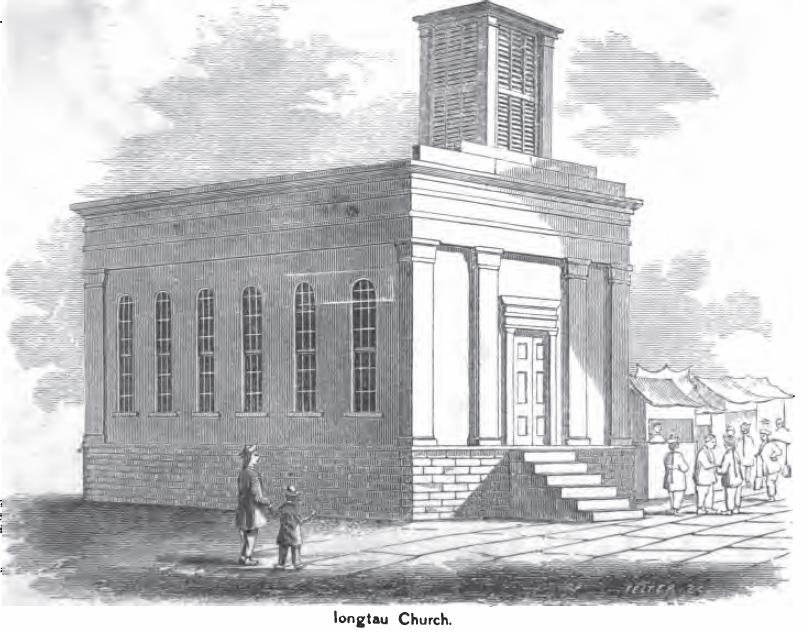 Church of the True God, Foochow